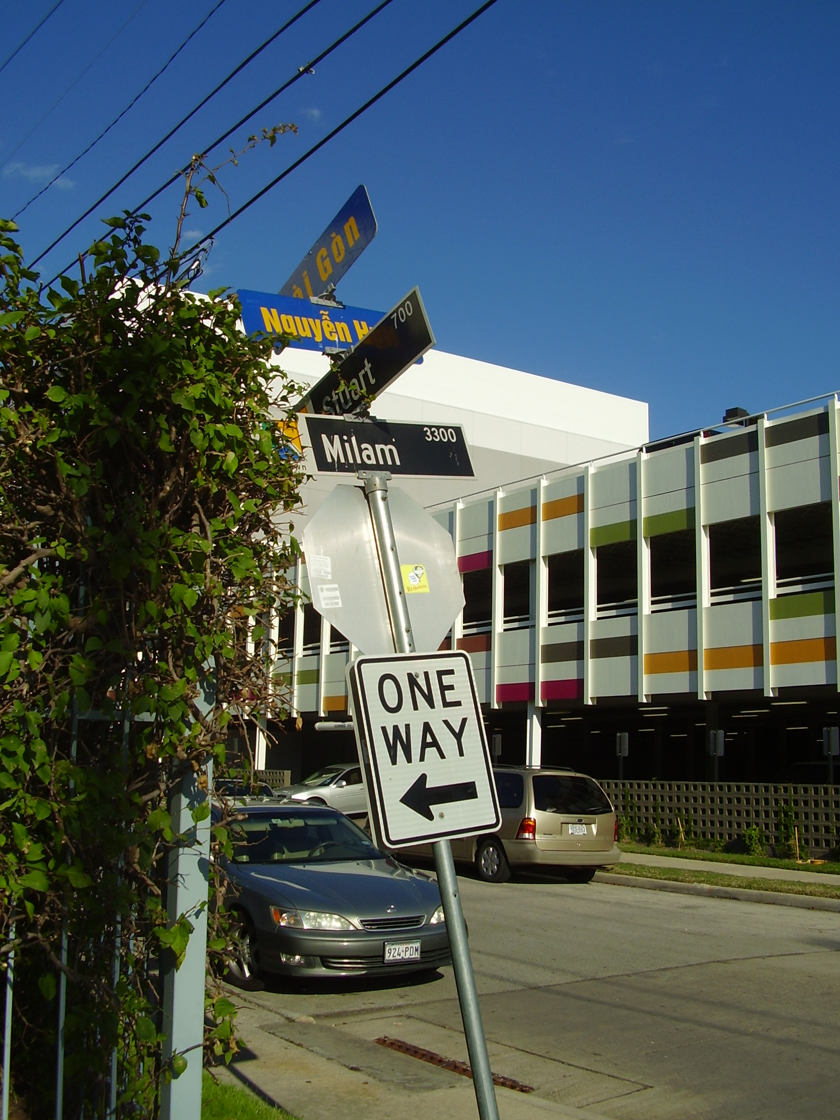 Vietnamese street signs in Midtown Houston - The English names of the streets are "Stuart" and "Milam," while the Vietnamese names are "Sài Gòn" and "Nguyễn Huệ"